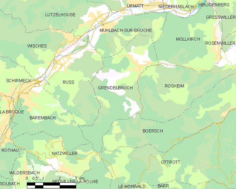 Map of French municipality